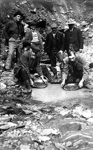 On verso of image: Panning gold, Cooper Creek, Alaska. John N. Cobb standing second from right. 1907 In Folder 121 Subjects (LCTGM): Gold mining--Alaska--Cooper Creek; Gold miners--Alaska--Cooper Creek Subjects (LCSH): Gold panning--Alaska--Cooper; Gold panning--Equipment and supplies